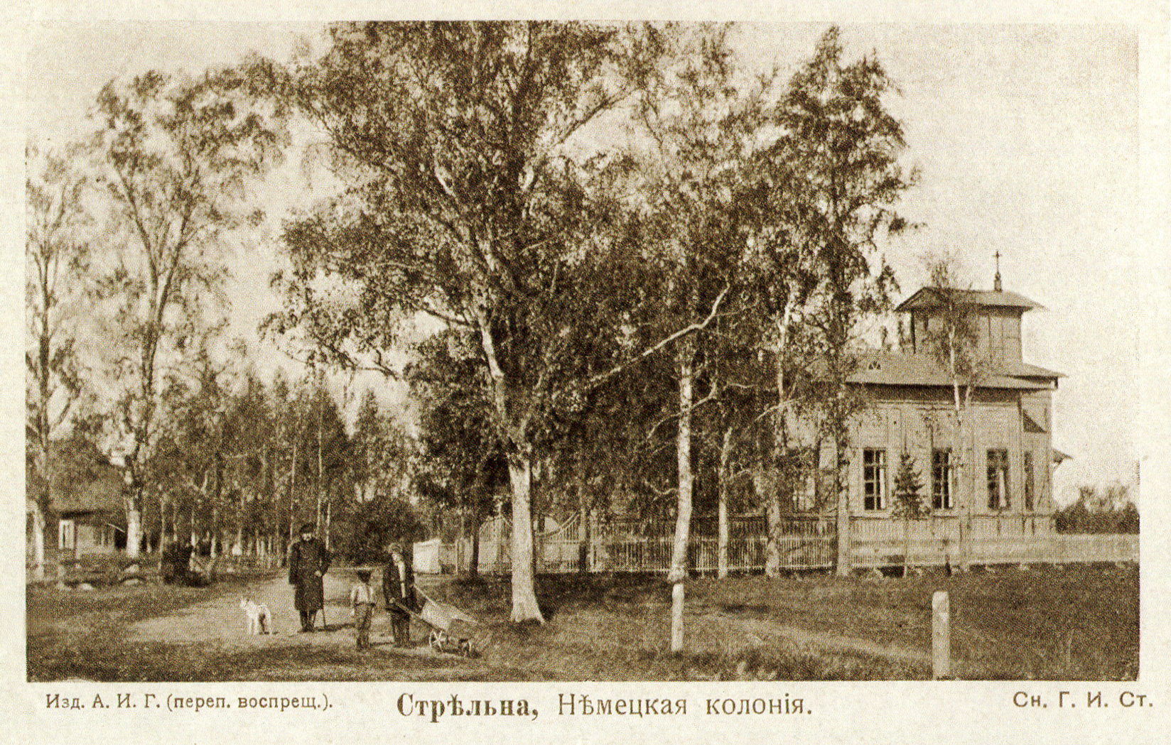 German colony near Petersburg